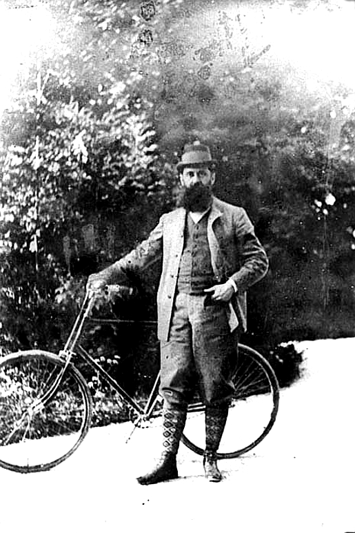 Theodor Herzl (1860-1904) with bicycle in Altaussee.